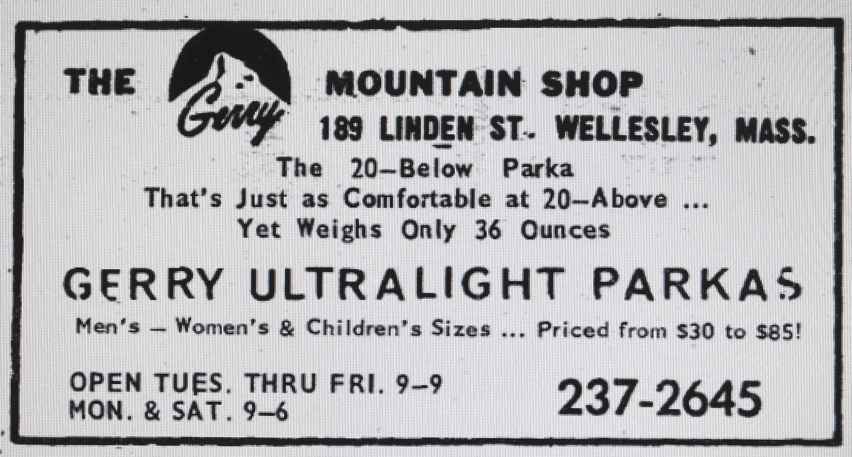 The Mountain Shop Ad from The Dover Reporter in 1967